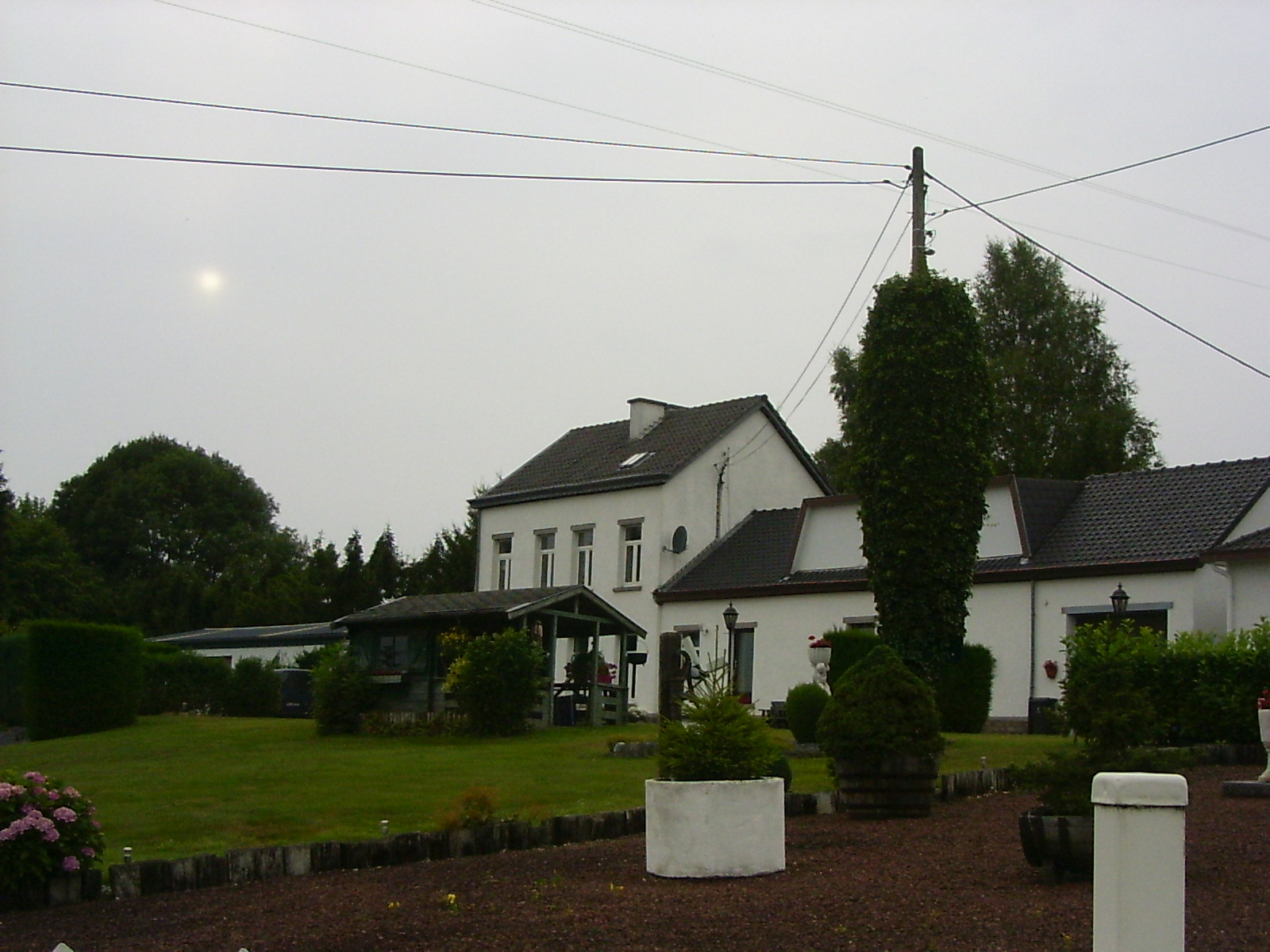 Gemmenich, former train station